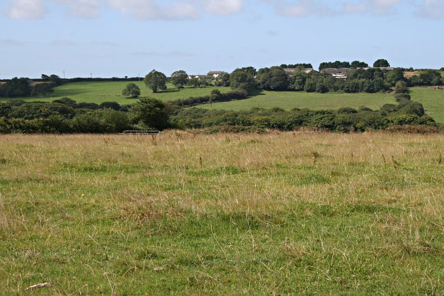 Trewinnion across the Valley